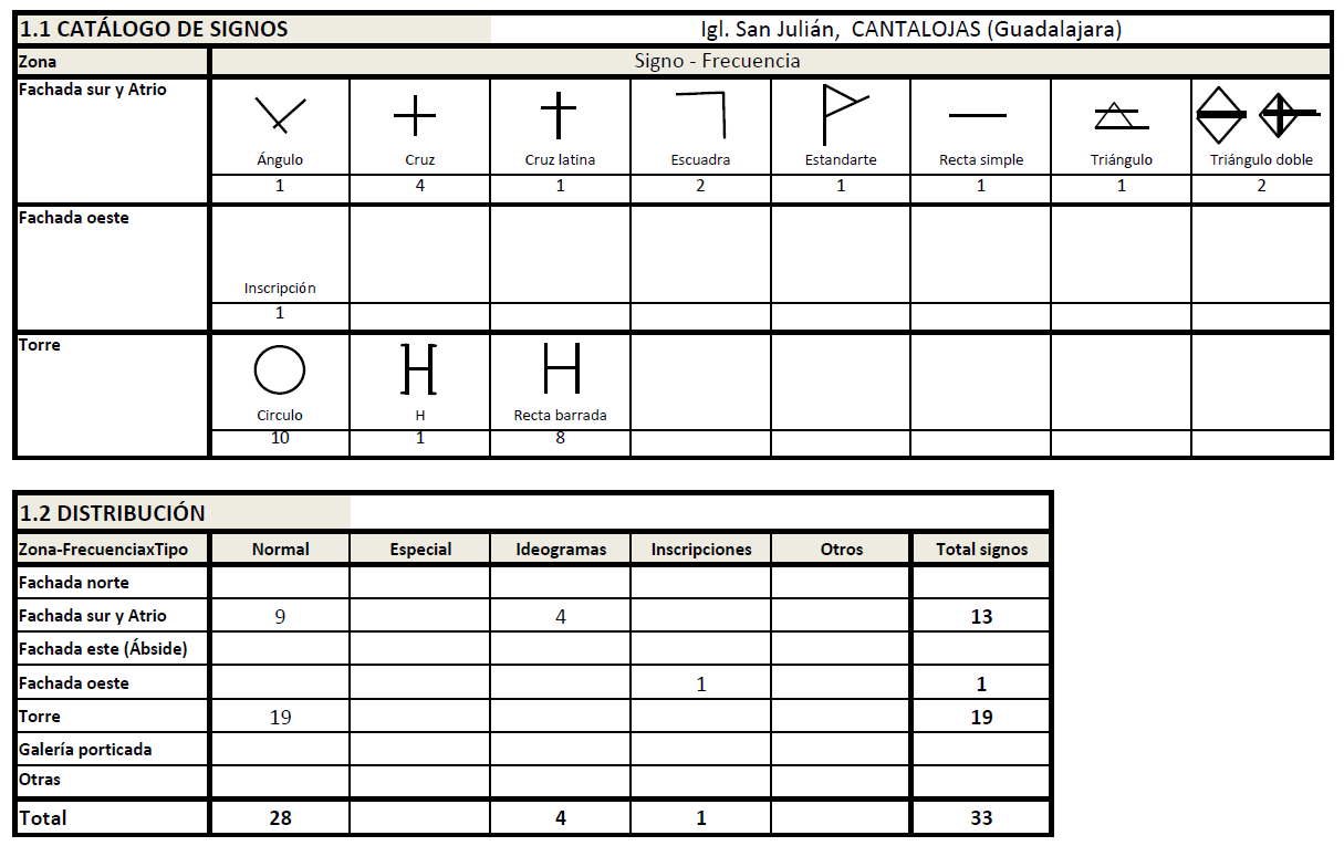 San Julián Church, Cantalojas (Guadalajara) Spain. Stonecutter mark catalog.